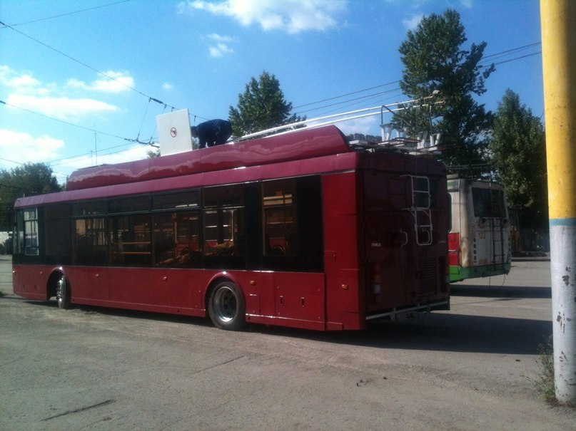 Trolza 5265 with autonomous mode